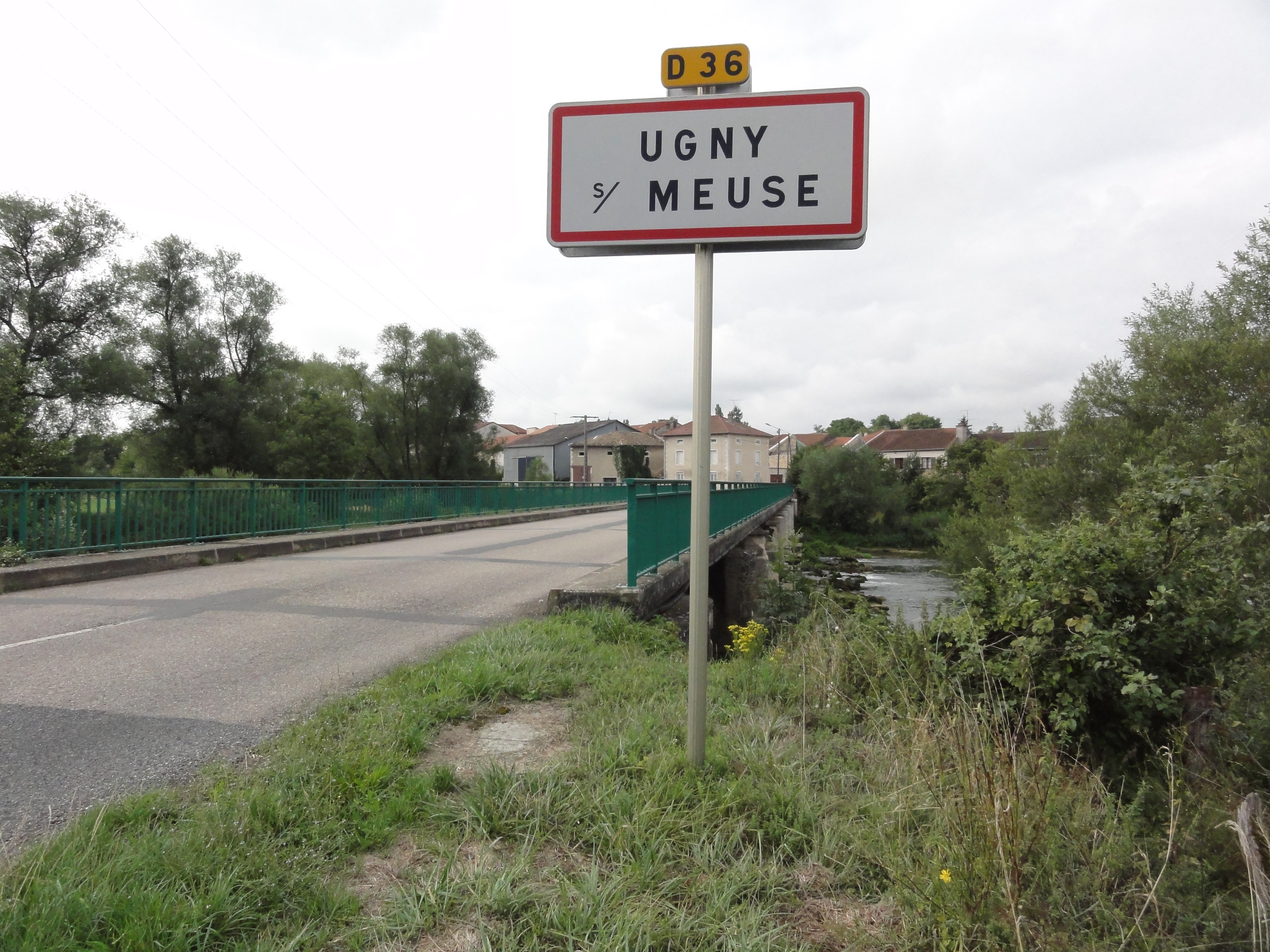 Ugny-sur-Meuse (Meuse) city limit sign and Meuse bridge